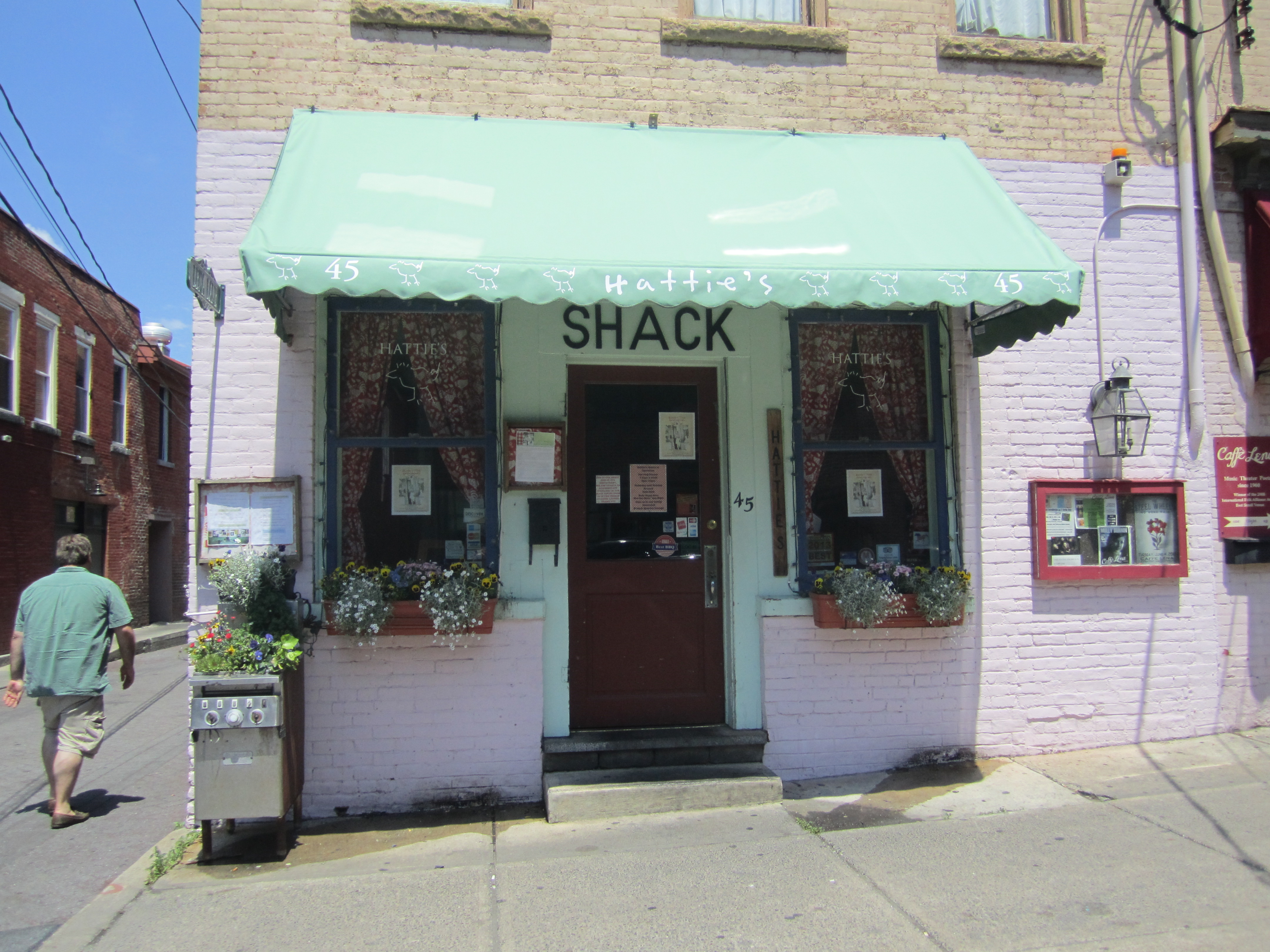 Hattie's Chicken Shack, 45 Phila Street, Saratoga Springs, New York in 2013